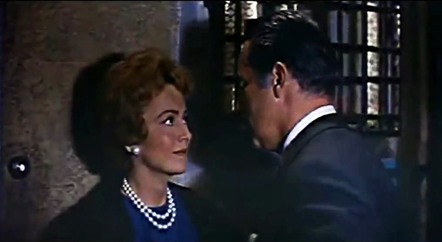 Olivia de Havilland and Rossano Brazzi in the original screen trailer for Light in the Piazza, 1962